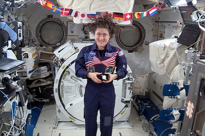 NASA astronaut Christina Koch holds a Apollo 11 50th anniversary commemorative half dollar aboard the International Space Station.